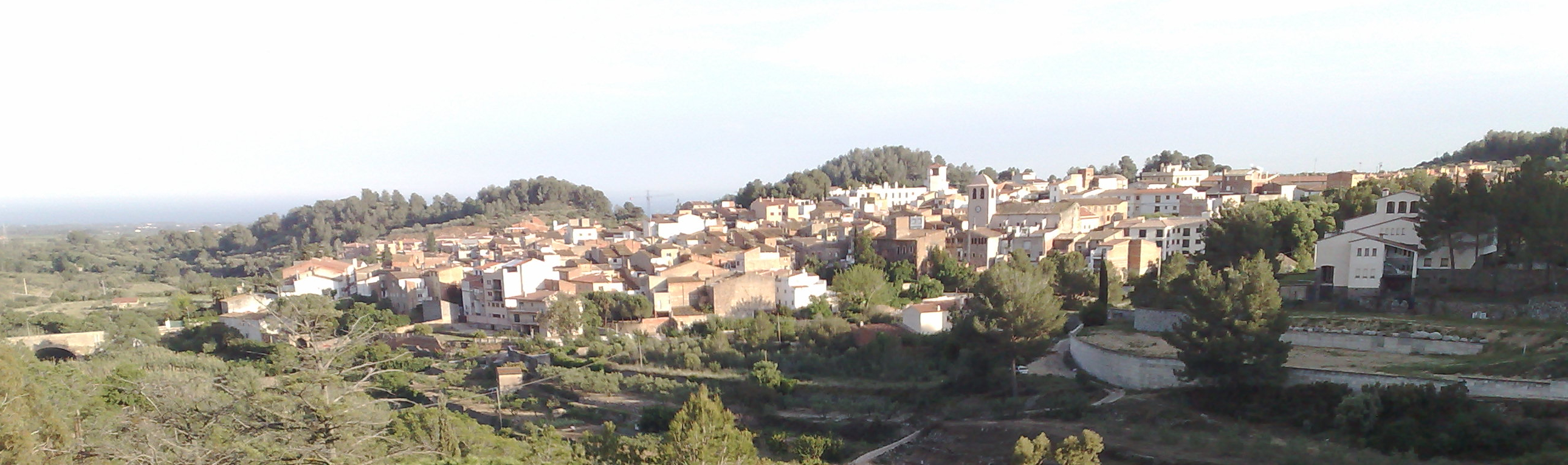 View of the Village of Riudecanyes from its reservoir